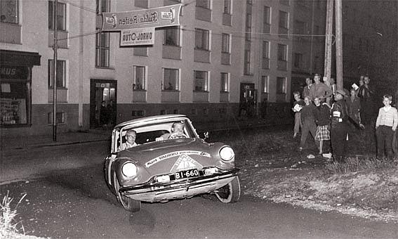 Timo Korpivaara drives a Citroën DS 19 at the 1956 1000 Lakes Rally (Rally Finland).